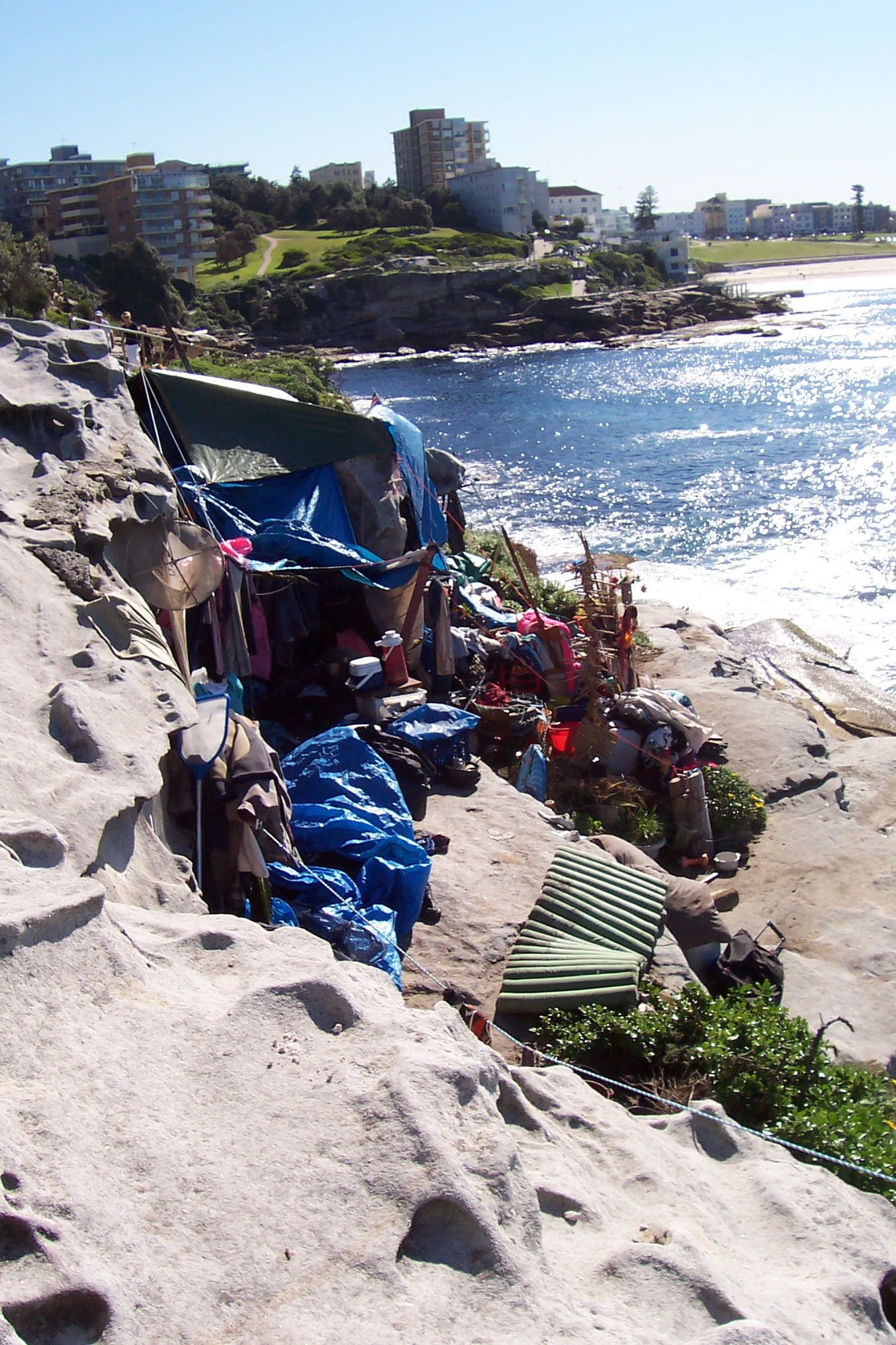 Hermit's hut on the cliff overlooking Bondi Beach.